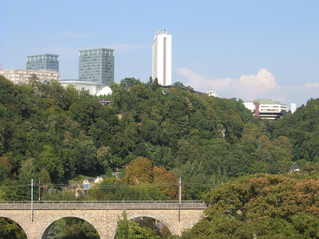 Photo of Kirchberg, taken from Bock Fiels, left the Robert Schuman Building, the two Gate of Europe towers (housing the European Parliament Secretariat), between them the Philharmonie, to the right the Heichhaus, extreme right the New Hemicycle Building (klenge Koub) (housing the Translation Center For the Bodies of the European Union)